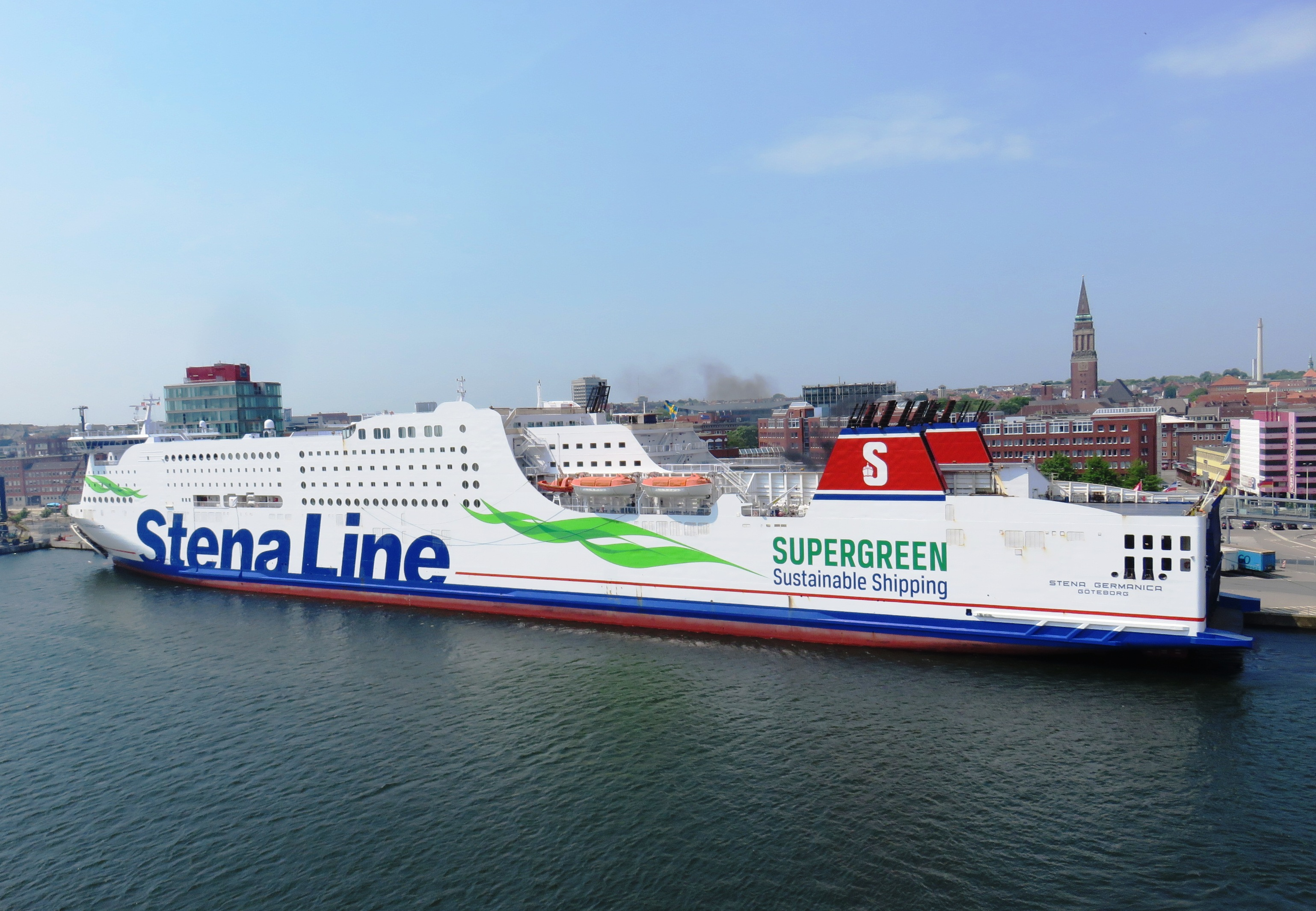 Stena Germanica moored in Kiel harbour